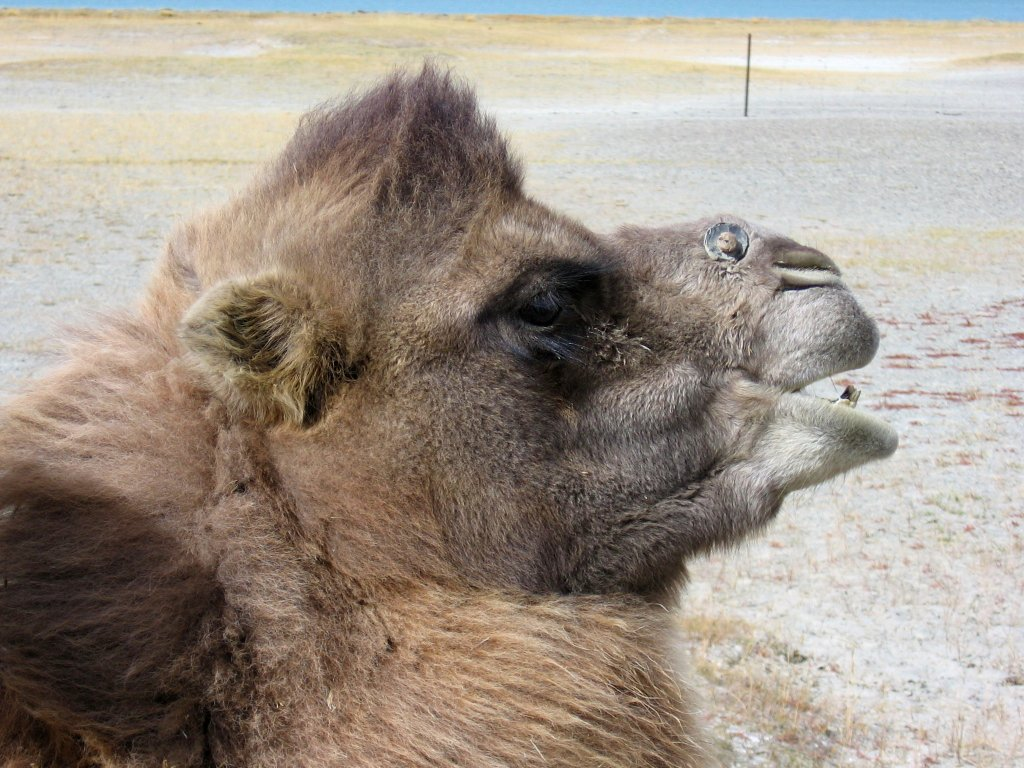 Karakul lake, close to Karakoram Highway in Xinjiang province (China).